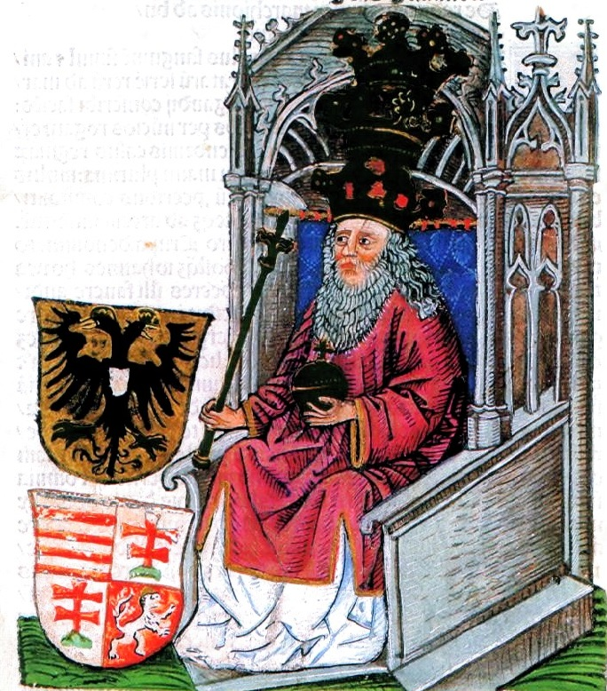 Sigismund, Holy Roman Emperor